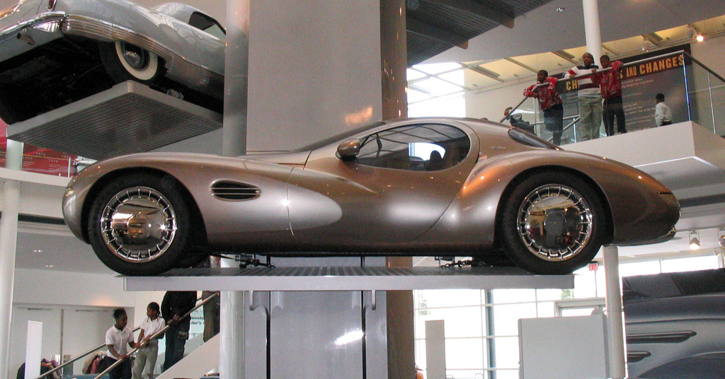 Chrysler Atlantic as photographed at Walter P. Chrysler Museum